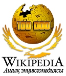 Kazakh Wikipedia logo for 100000 articles